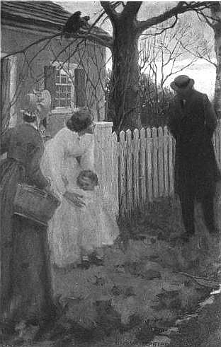 Illustration for the short story "The Minister's Black Veil" by American author Nathaniel Hawthorne. The artist was depicting the scene "the children fled from his approach."